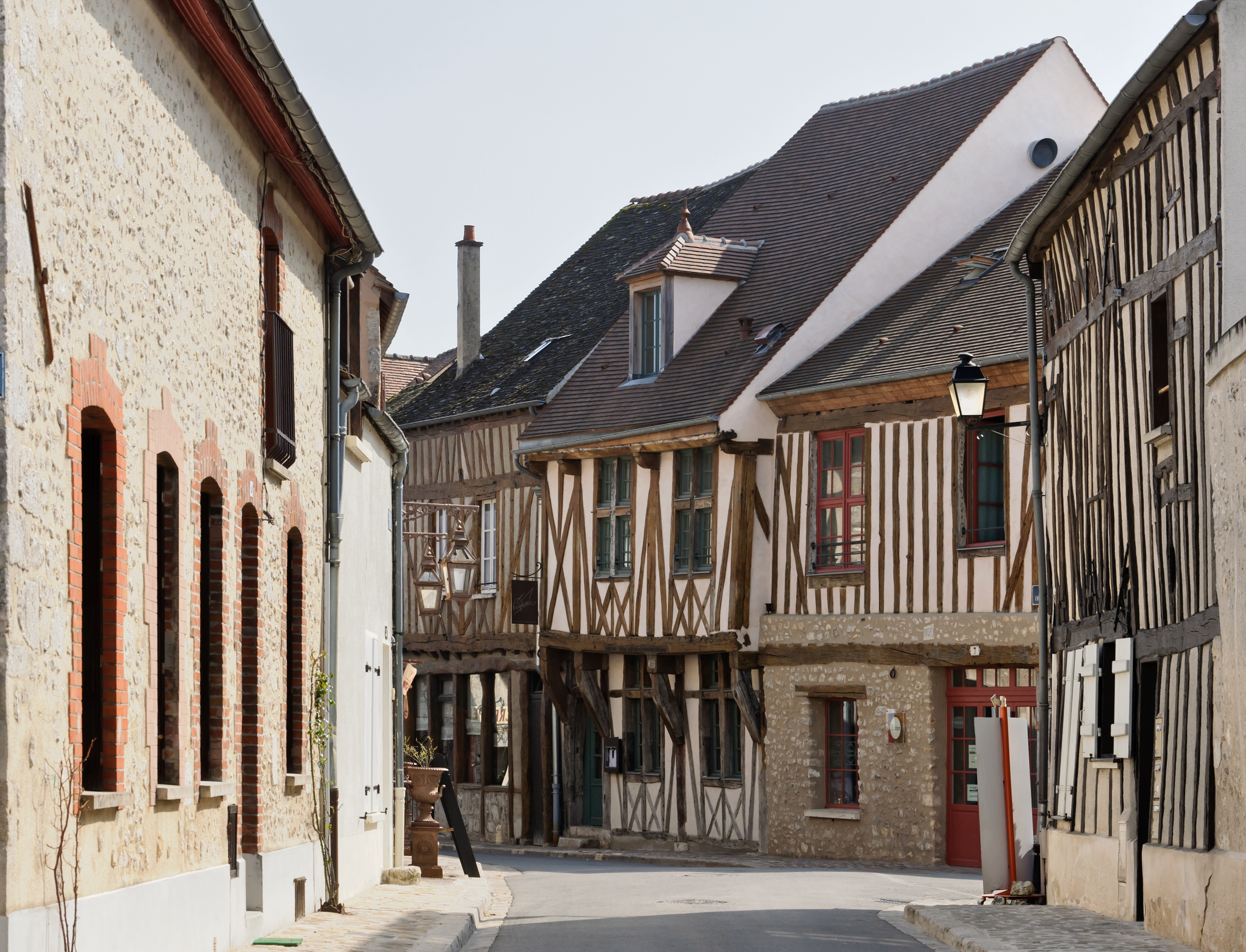 Provins, Seine-et-Marne, France: timber-framed houses, rue Couverte, in the Upper Town.